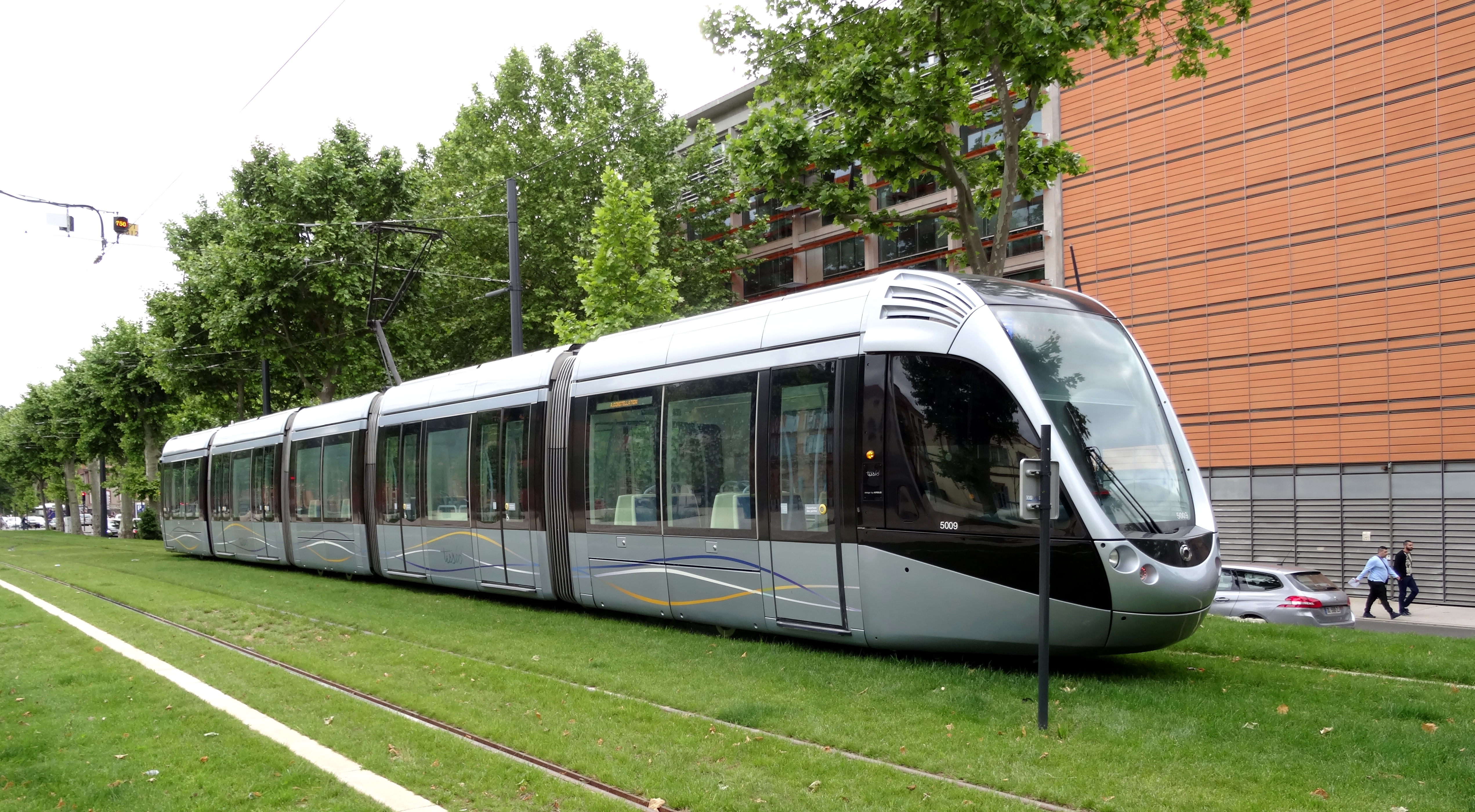 Tramway de Toulouse - Lo tramvai a Tolosa - Straßenbahn in Toulouse